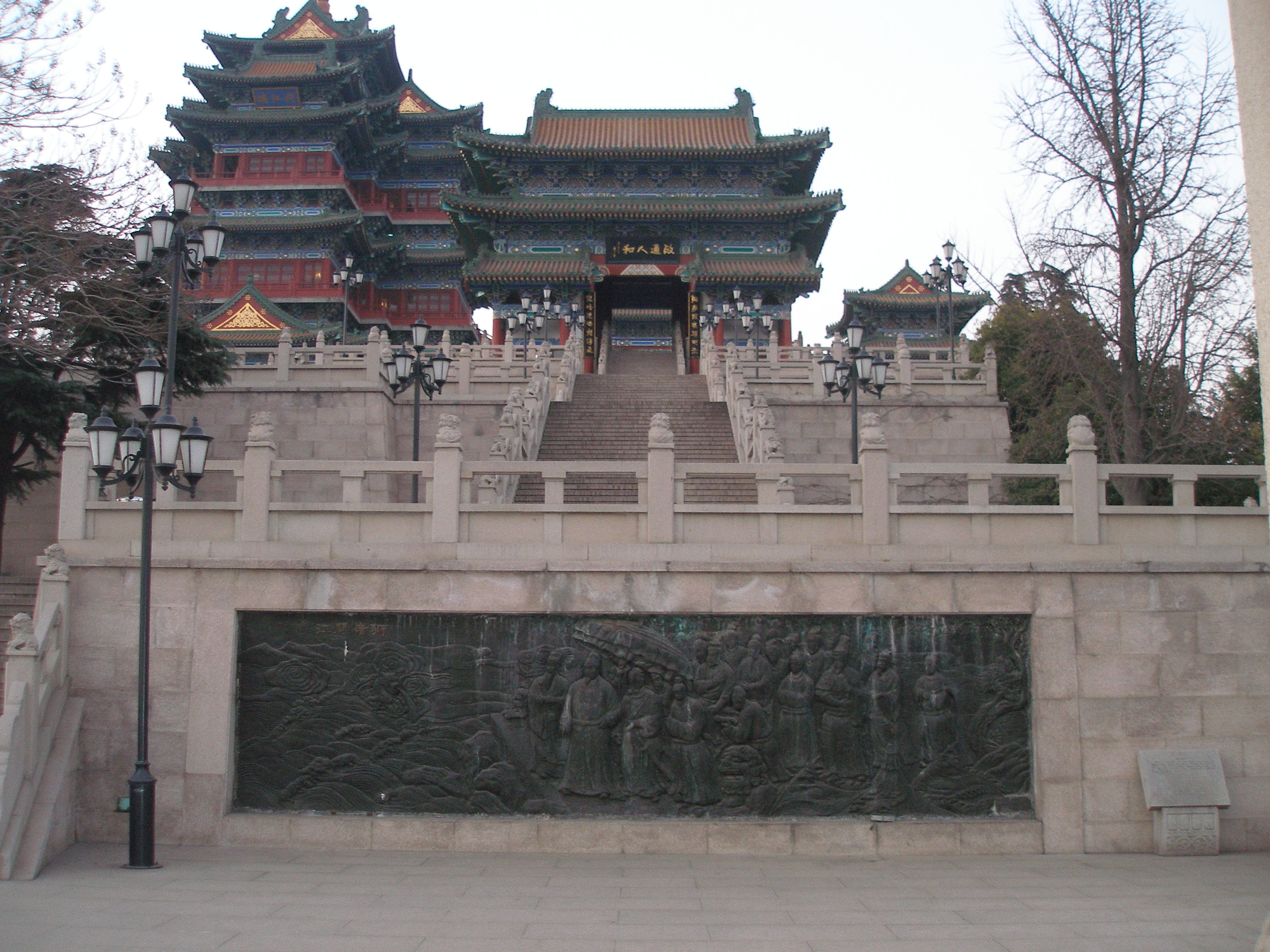 Yue Kang Liu on Lion mountain of Nanjing